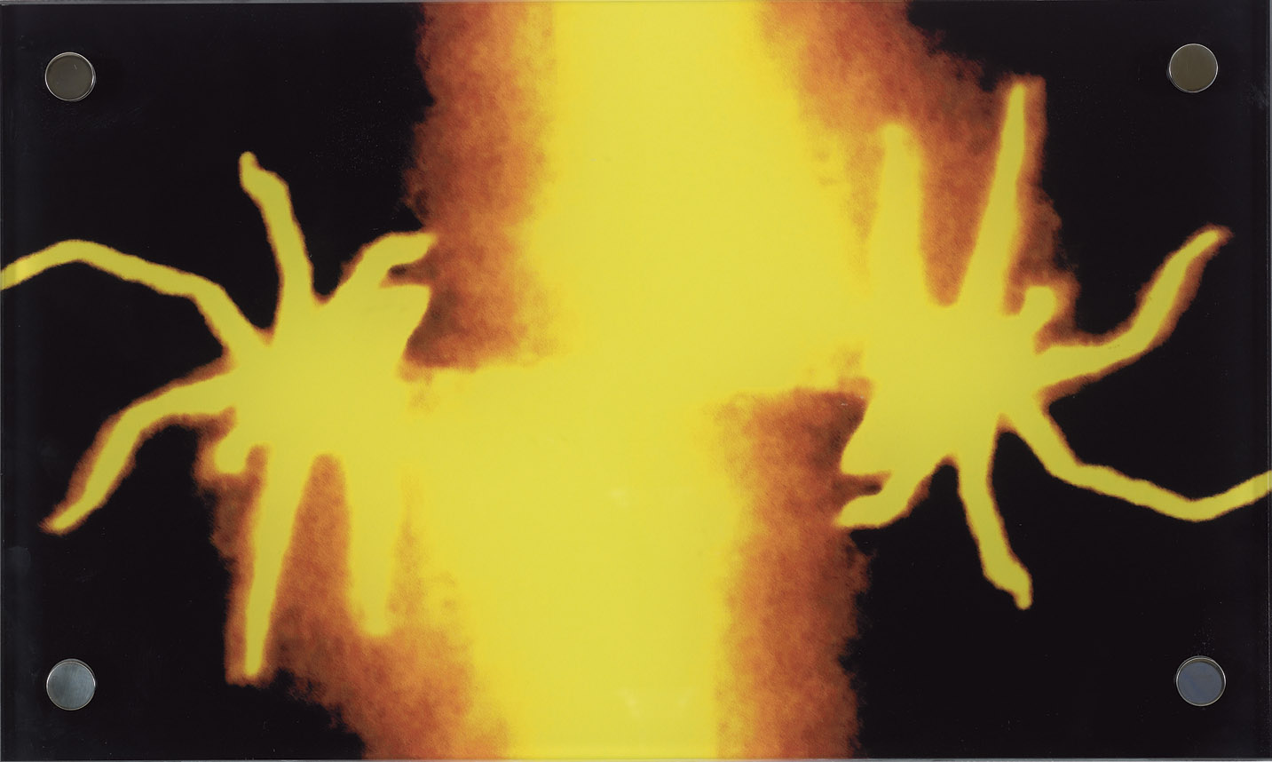 Artwork of Carmit Weizman